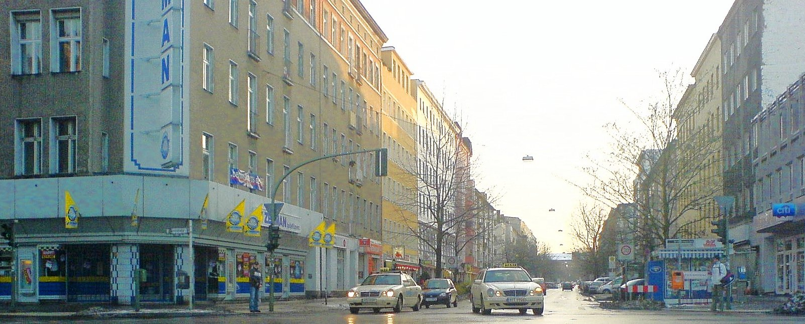 Gotzkowskystraße seen from Turmstraße, the main shopping street in Moabit, Berlin